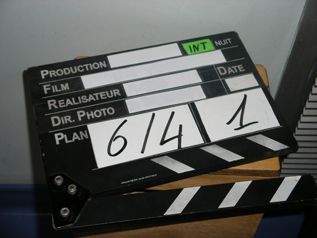 Clapboard / clapperbord